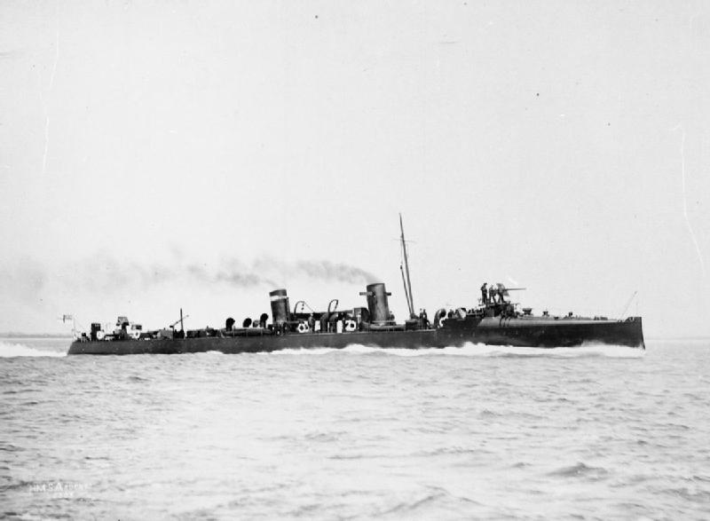 Photograph of British destroyer HMS Ardent.